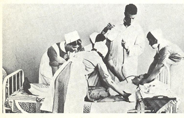 Insulin shock therapy is terminated by administration of glucose through a 'gavage' tube, in Lapinlahti Hospital, Helsinki in 1950's